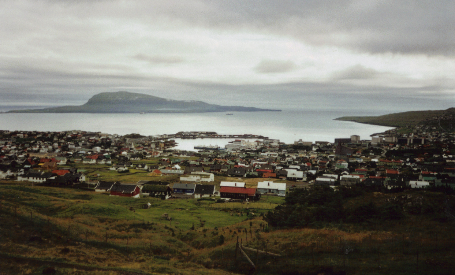 Í Kerjum Forest (Eastern part), Tórshavn, Faroe Islands